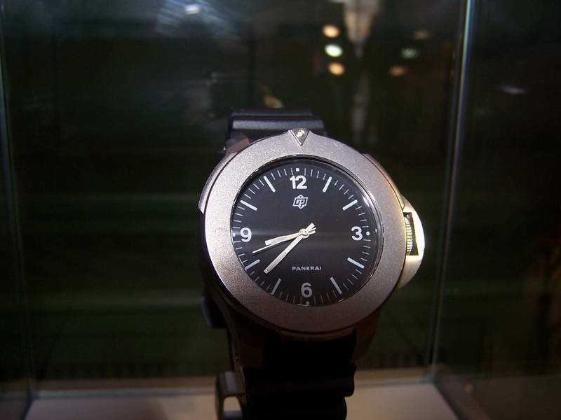 This work is free and may be used by anyone for any purpose. If you wish to use this content, you do not need to request permission as long as you follow any licensing requirements mentioned on this page.